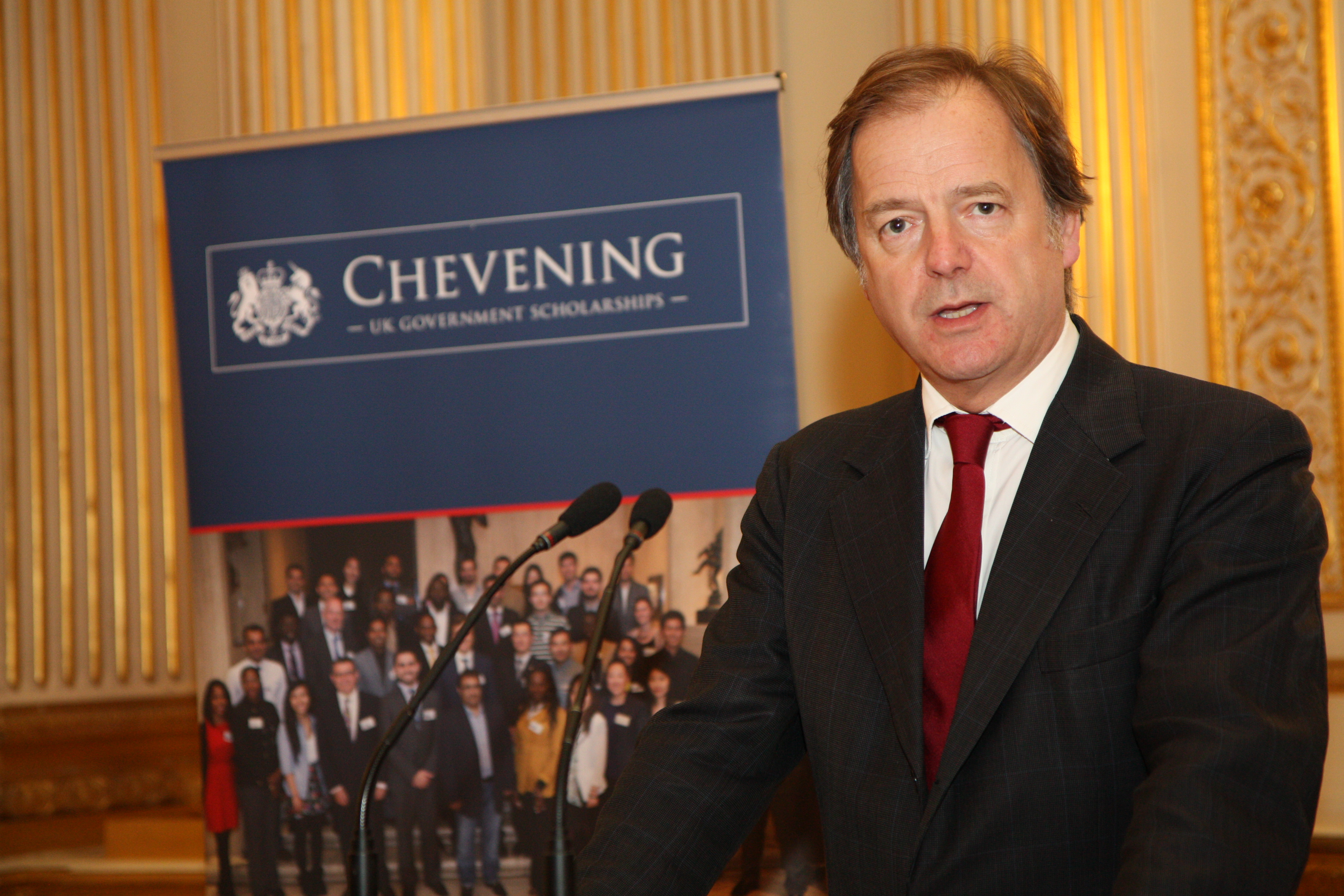 Foreign Office Minister Hugo Swire speaking at a Chevening Partnerships event in London, 24 March 2015.